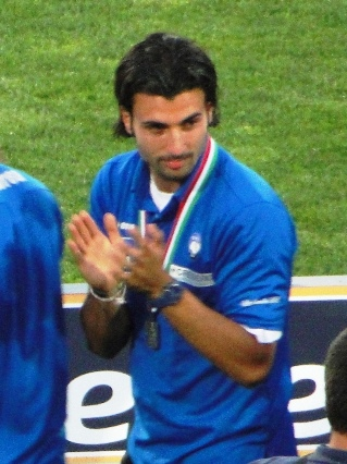 Fabio Ceravolo, italian football player